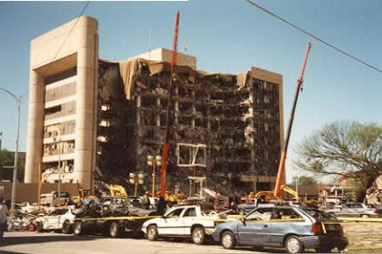 Perspective view of Alfred P. Murrah Federal Building during demolition, en:1995